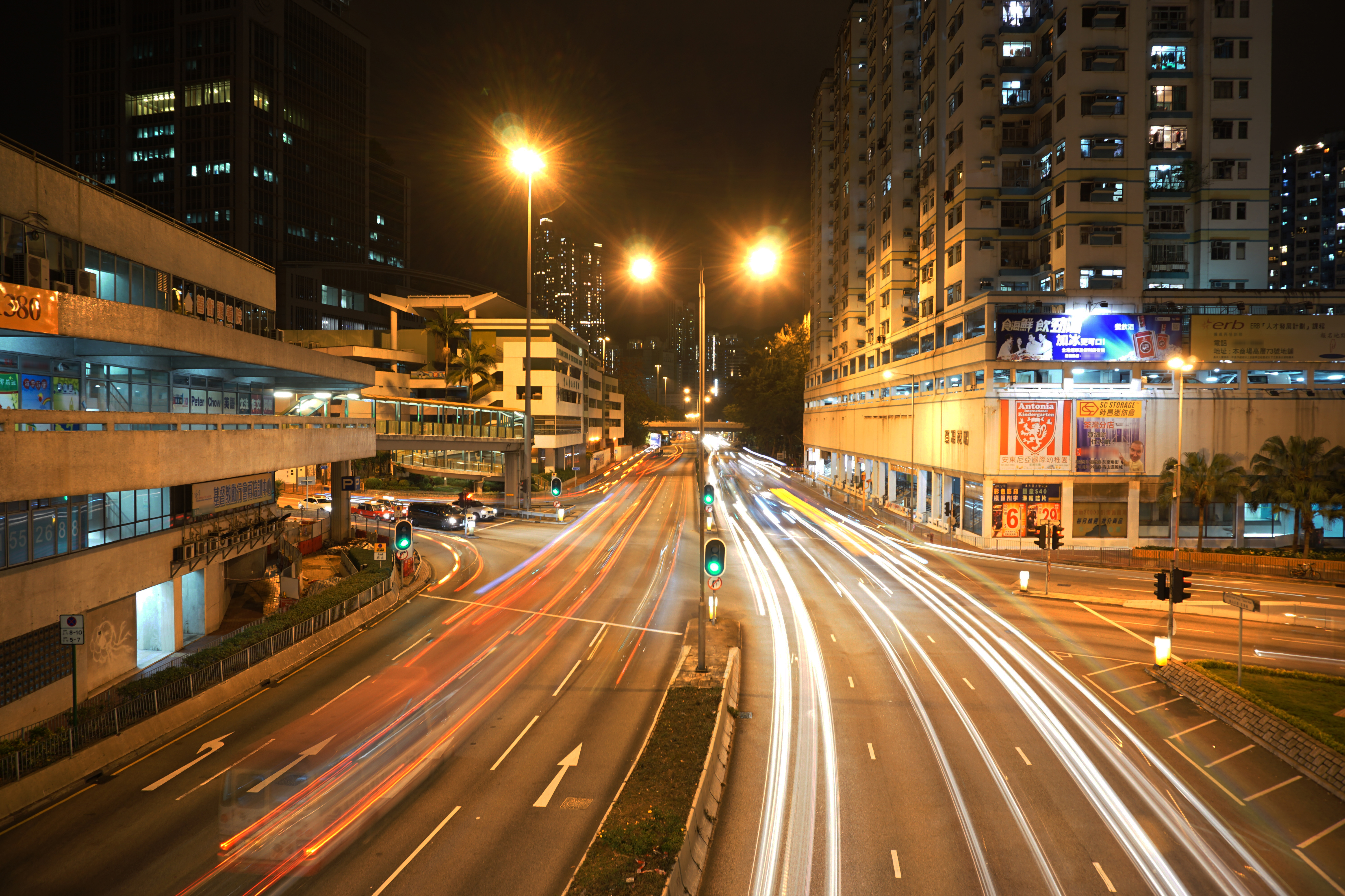 Castle Peak Road in Tsuen Wan, Hong Kong.